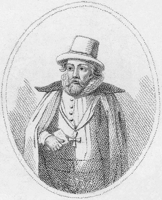 Francis Tresham in wiki